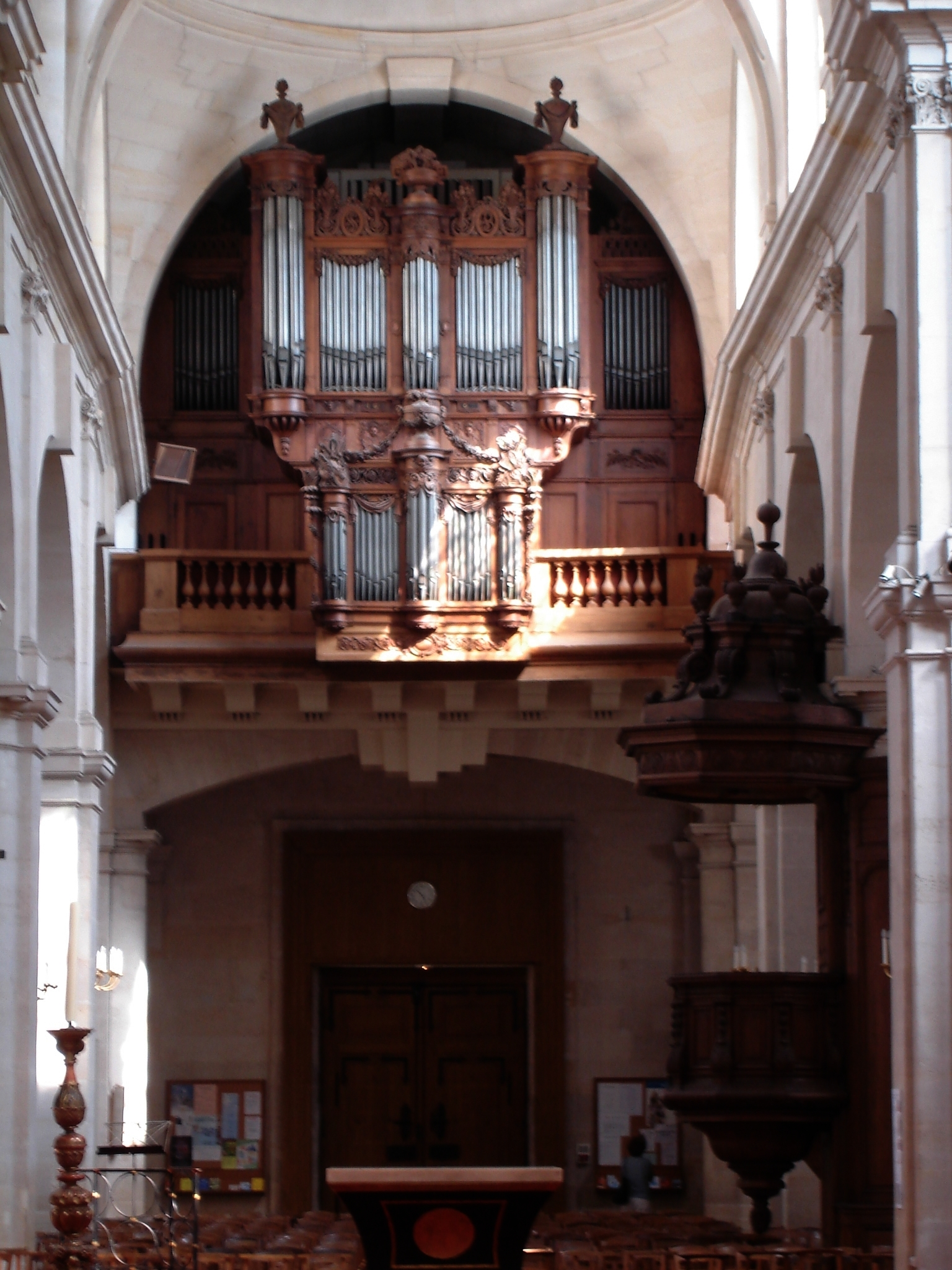 Church:Saint-Jacques-du-Haut-Pas (rue saint-Jacques - Paris Ve arrondissement). Inside of the church -The organ and the pulpit